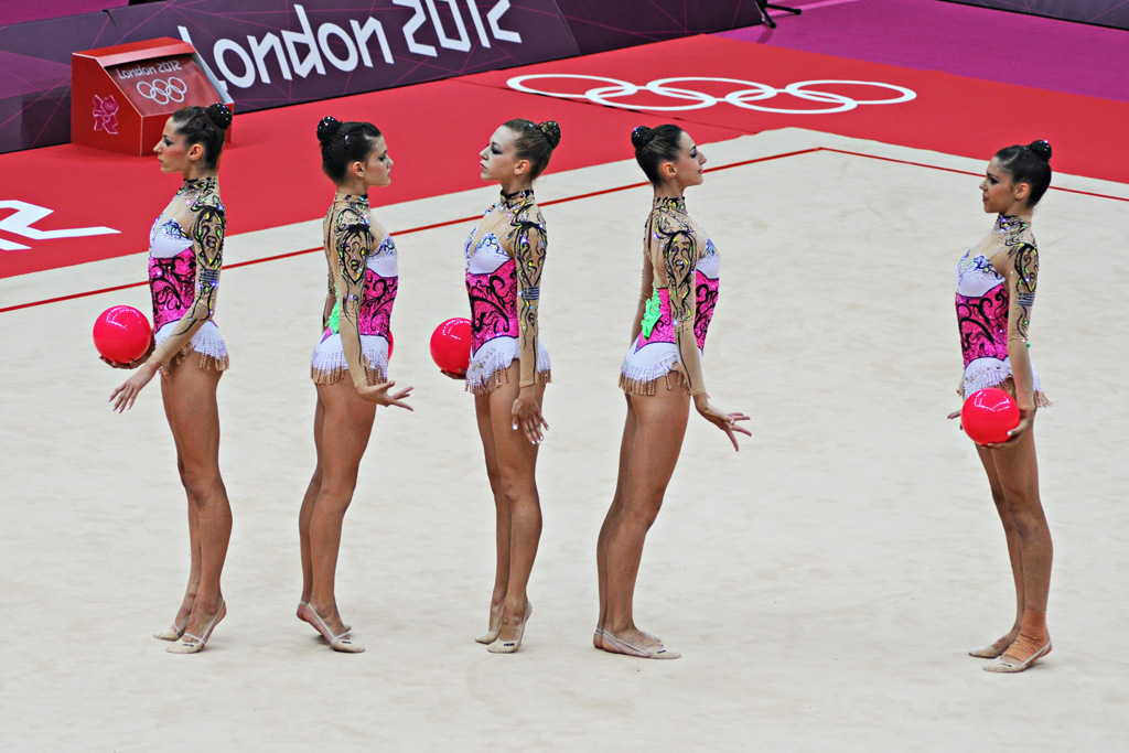 Rhythmic Gymnastics, 2012 Summer Olympics, Greek team